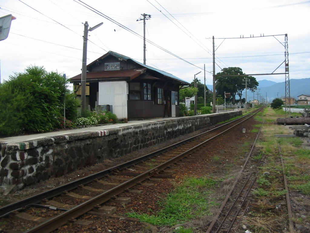 Wakaguri Station on the Toyama Chiho Railway Main Line in Kurobe, Toyama Prefecture, Japan